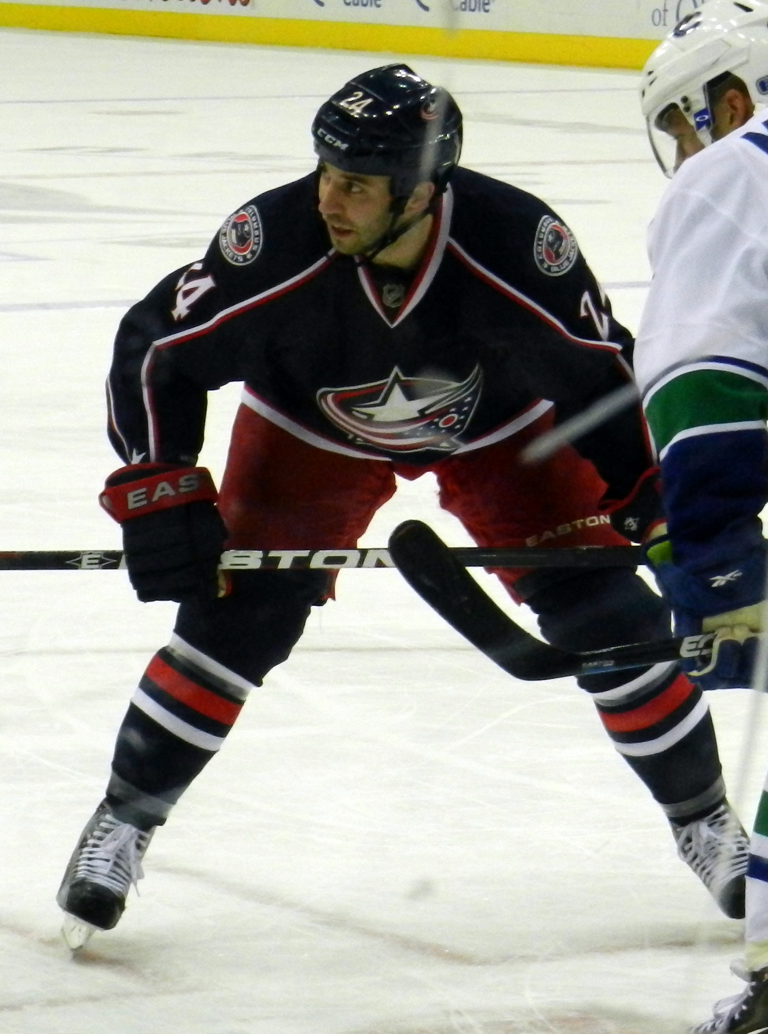 Derek MacKenzie taking a face-off for the Columbus Blue Jackets during vs. the Vancouver Canucks in the 2011-12 season. Columbus won the game 2-1 in a shoot-out